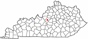 Adapted from Wikipedia's KY